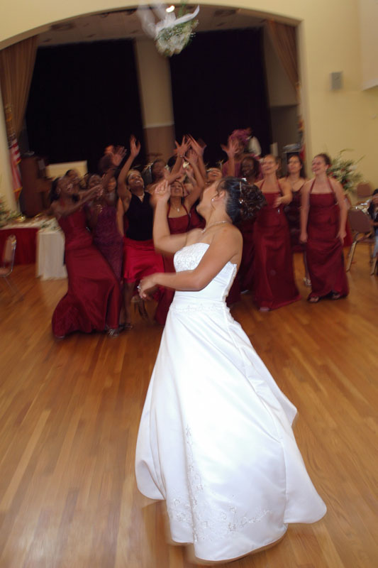 A bride tossing her bouquet of flowers.